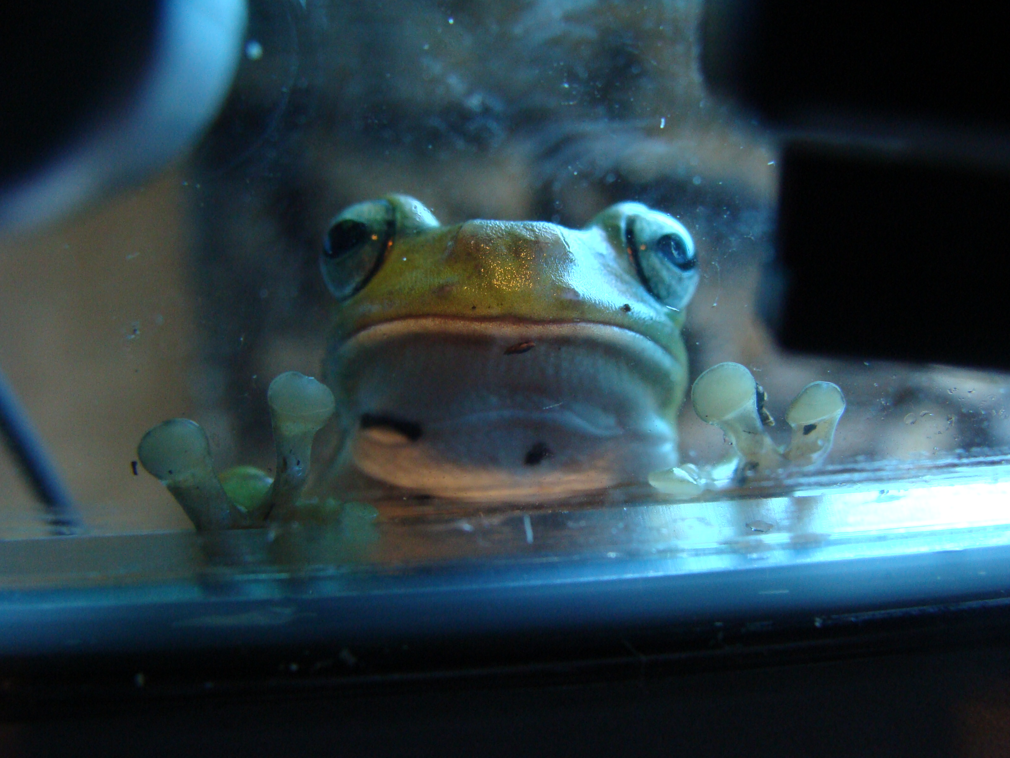 Litoria caerulea (Australian Green Tree Frog) in Sala Cornide of Aquarium Finisterrae (House of the Fishes), in Corunna, Galicia, Spain